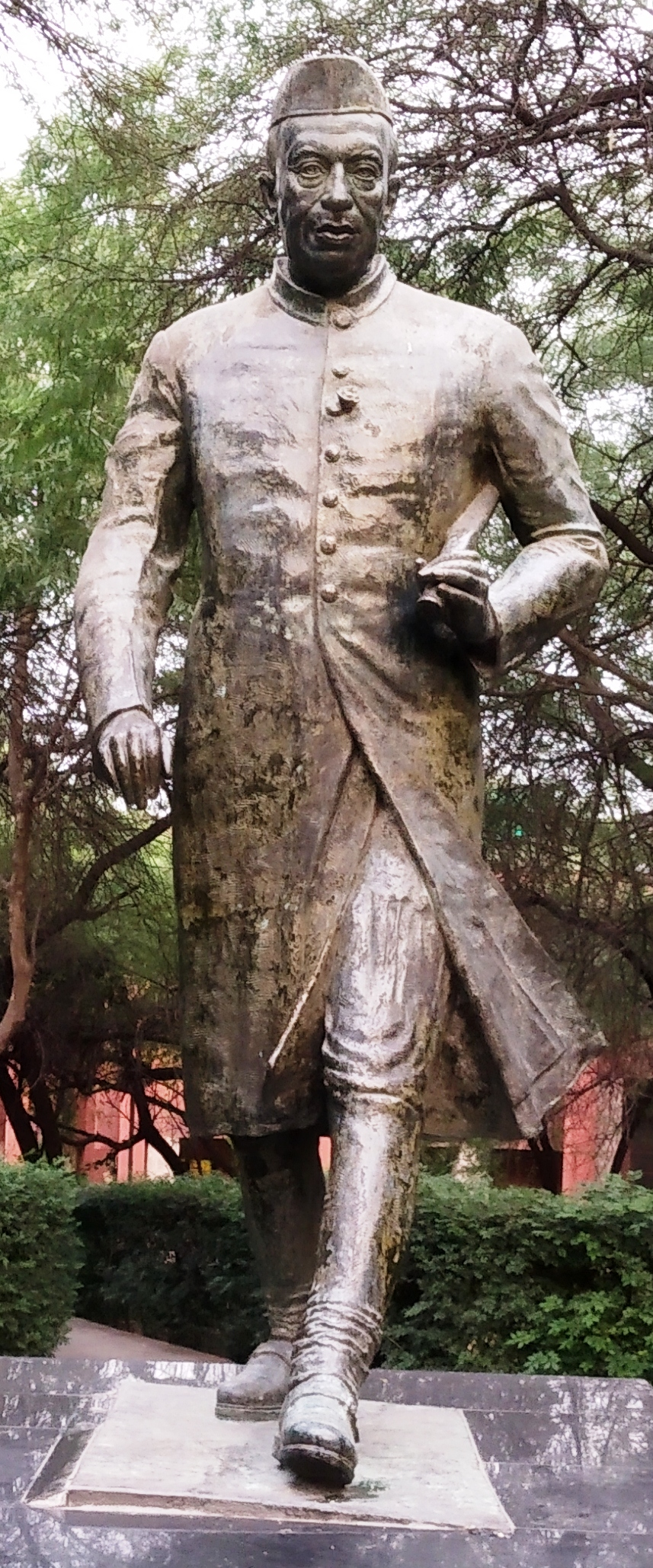 This is the statue of Pandit Jawaharlal Nehru (1889-1964) at the administrative block of JNU, Delhi. The statue was unveiled by the then Prime Minister of India, Dr. Manmohan Singh, in the presence of Shri Arjun Singh, Union Minister of HRD and Dr. Karan Singh, Chancellor of JNU on 14th November, 2005.